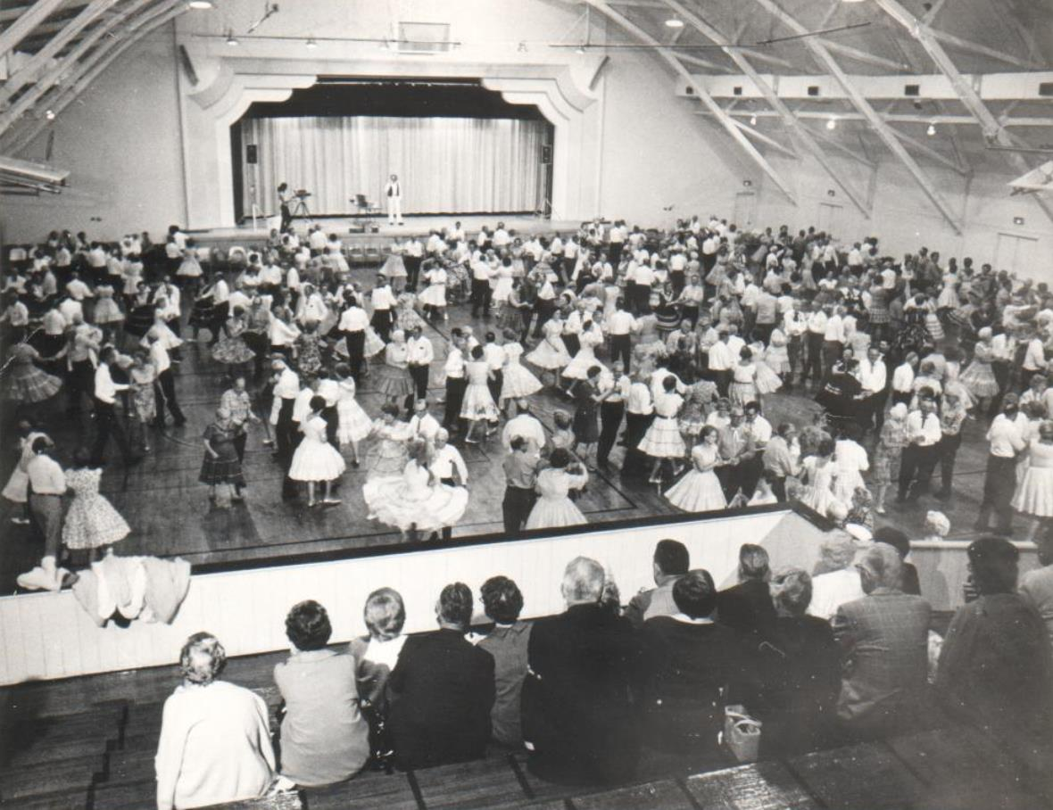 copy of a photograph of the interior of the historic Sarasota Municipal Auditorium in the governmental archive available to the public at the Sarasota County History Center - this building is listed on the Florida Master Site File of historic buildings and listed in the National Register of Historic Places, being cited for its public use as an auditorium and for community recreational purposes as well as for its architectural appointments and characteristics - here the hall is being used for a 1950s dance held by a community organization - note truss work that supports the roof and the Art Deco proscenium for the historically significant stage -- the image is in the public domain because it is a Florida public document